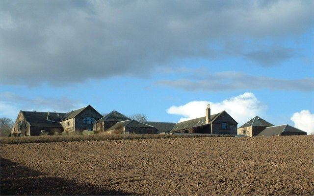 Greenside Farm. Looking north